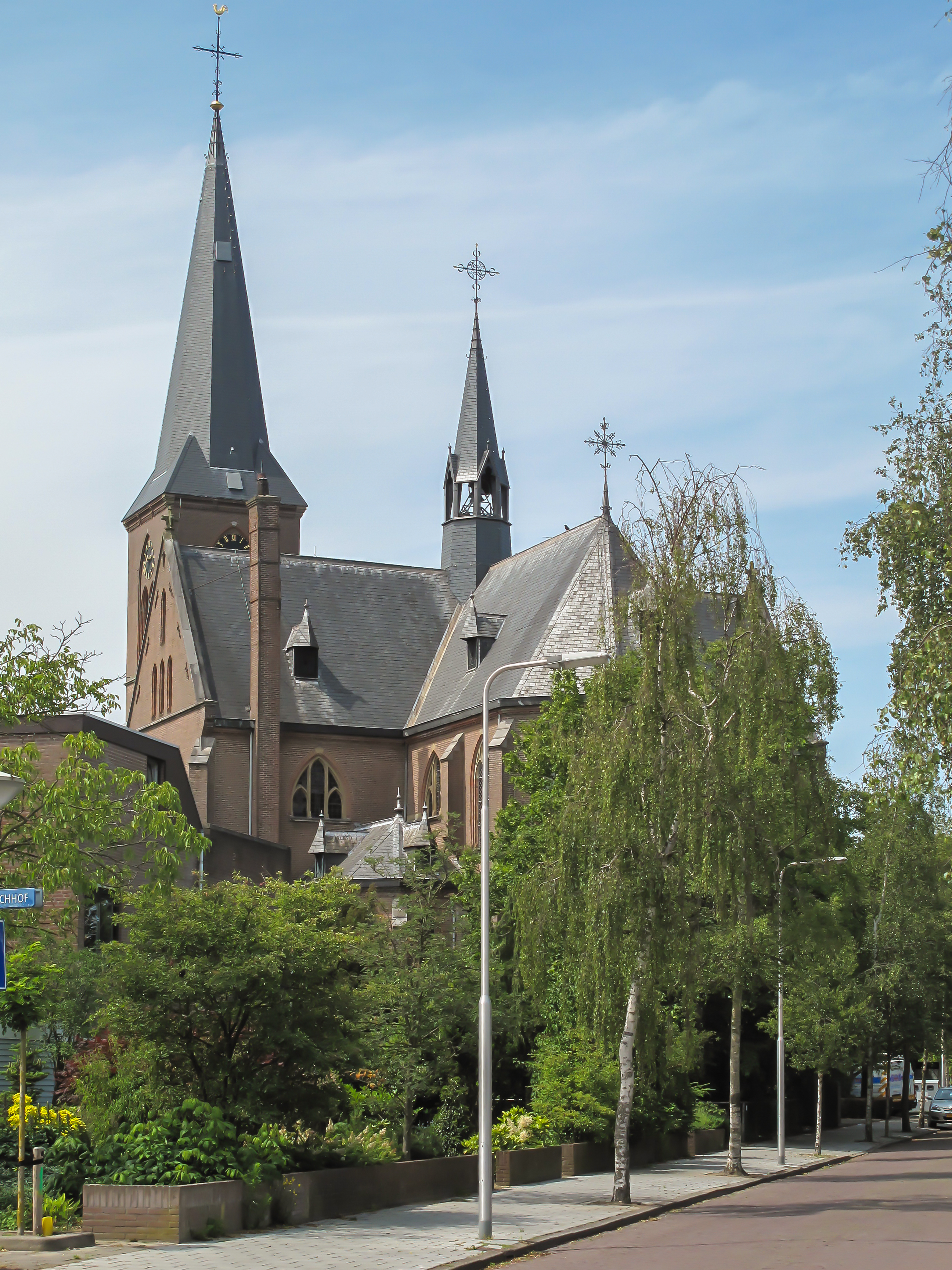 Driehuis, church: Sint Engelmundskerk - Driehuis, Driehuizerkerkweg 113 - Gemeentelijk monument